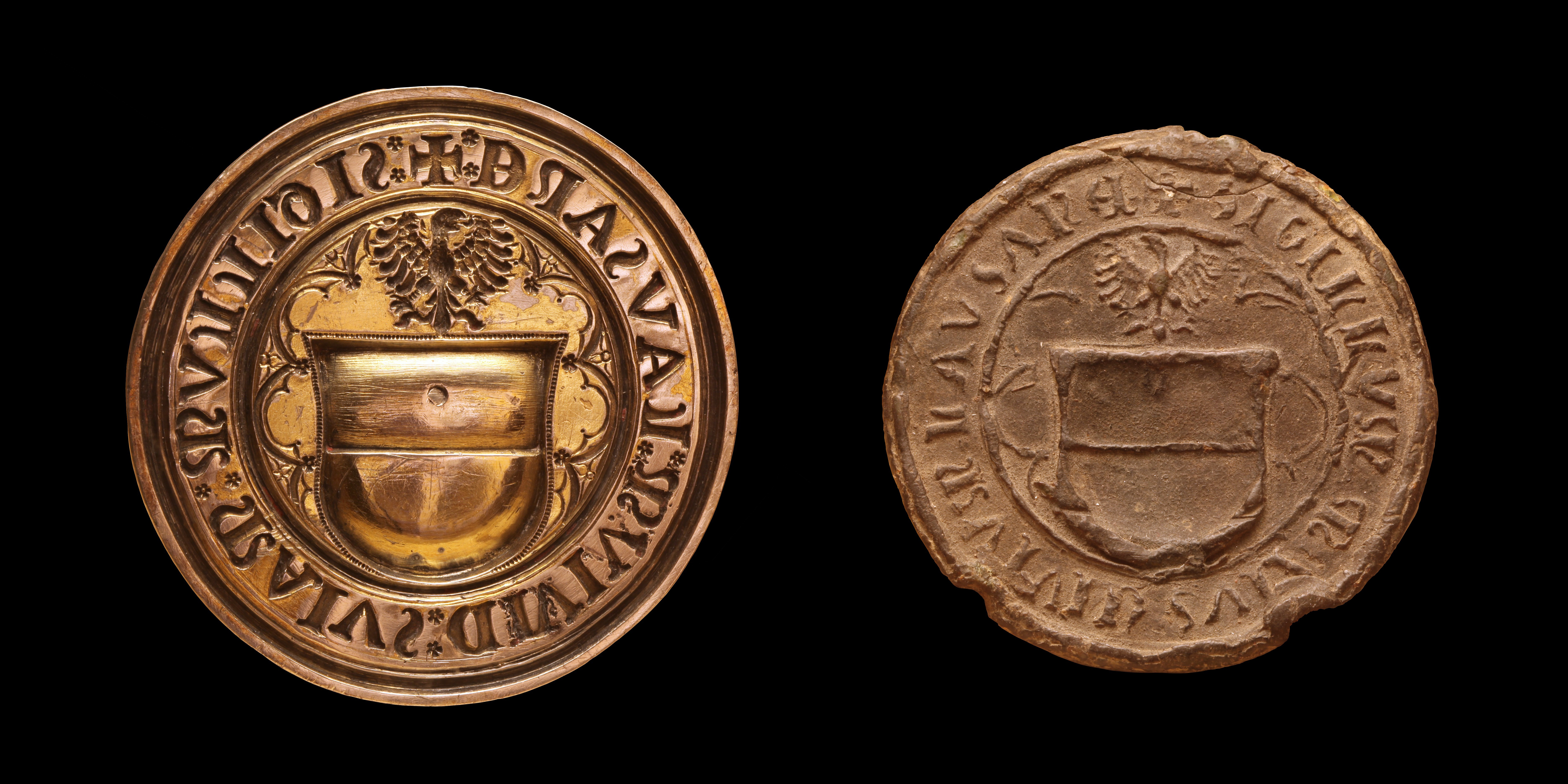 Seal of Lausanne, made by Antoine Bovard in 1525. Made for the combourgeoisie treaty between Lausanne, Bern and Fribourg signed on 7 December 1525. NB: the printed wax seal was probably made using a duplicate of the device rather than the device shown on the photograph (size, lettres, eagle). On display at the Musée historique de Lausanne, lent by Lausanne municipal archive.